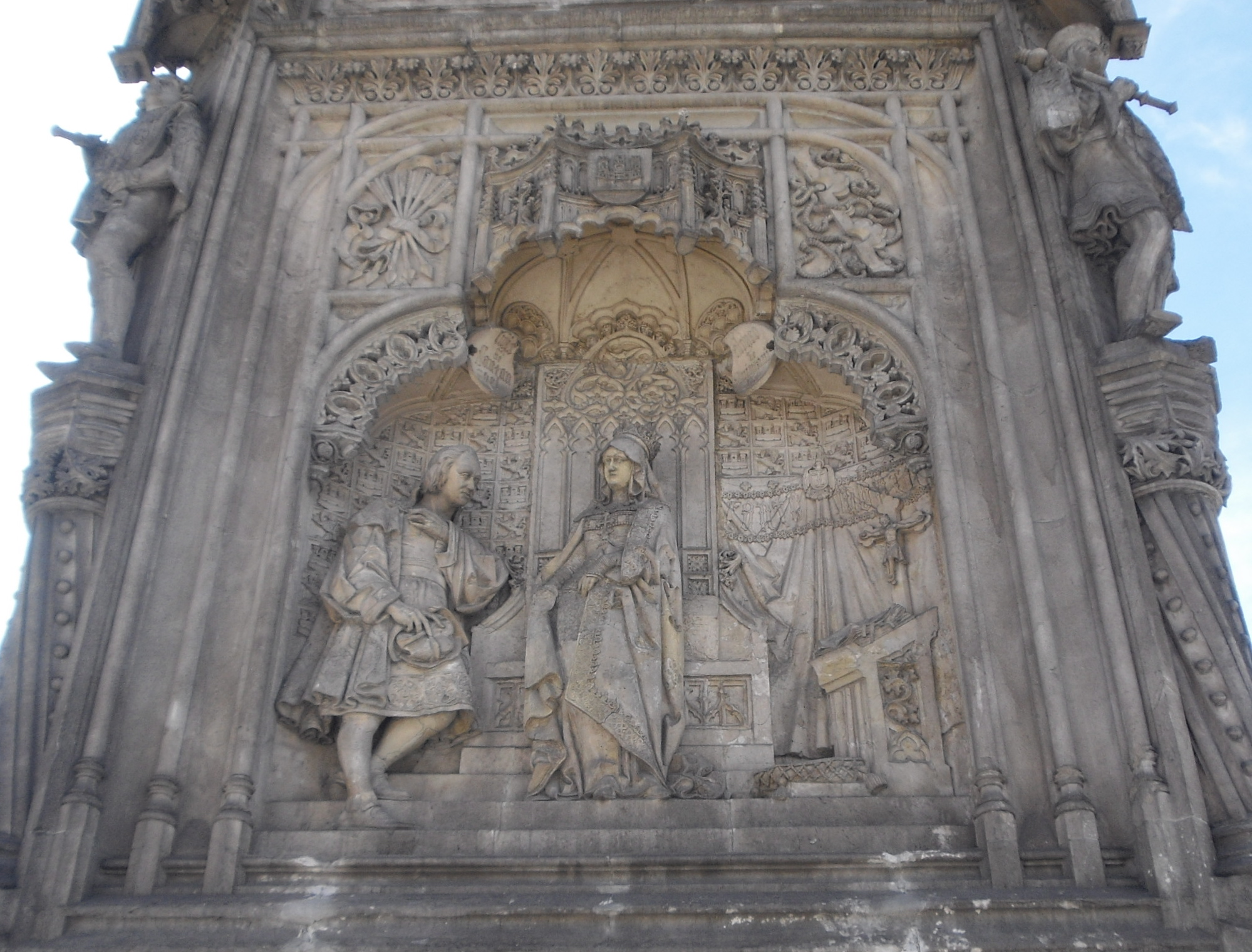 Detail of the monument to Christopher Colombus (1451?–1506) at the Plaza de Colón ("Columbus Square") in Madrid (Spain). It's the western side of the square base, sculpted in stone in a Neo-gothic style by Arturo Mélida (1849–1902). Relief represents queen Isabella (centre) offering to pawn her jewels in aid of Columbus' (left) enterprise. At the right, a prayer kneeler with a crucifix.